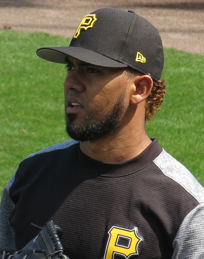 Antonio Bastardo of the Pittsburgh Pirates, April 15, 2017.